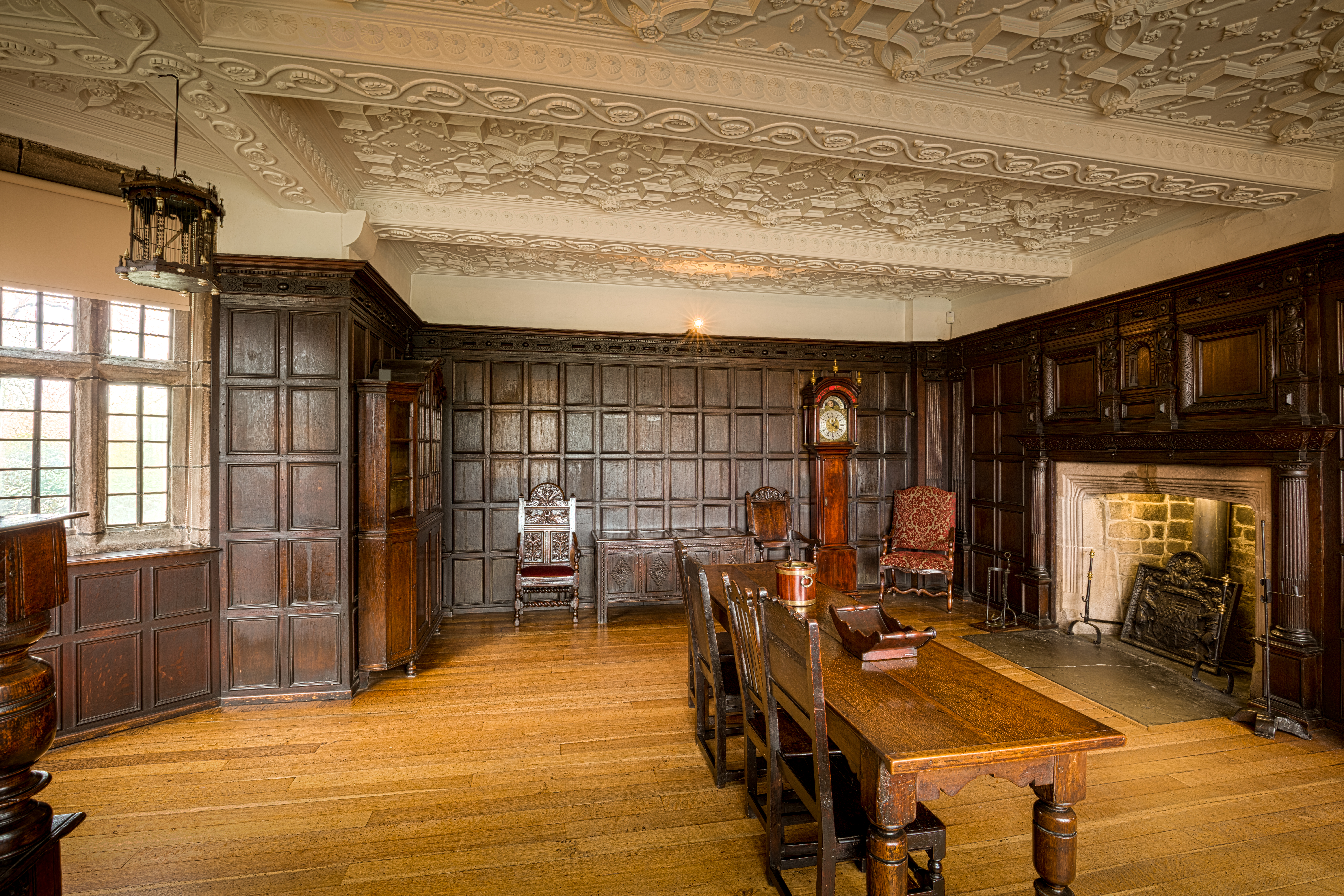 Here is an hdr photograph taken from the dining room inside Hall i' th' Wood. Located in Bolton, Greater Manchester, England, UK.